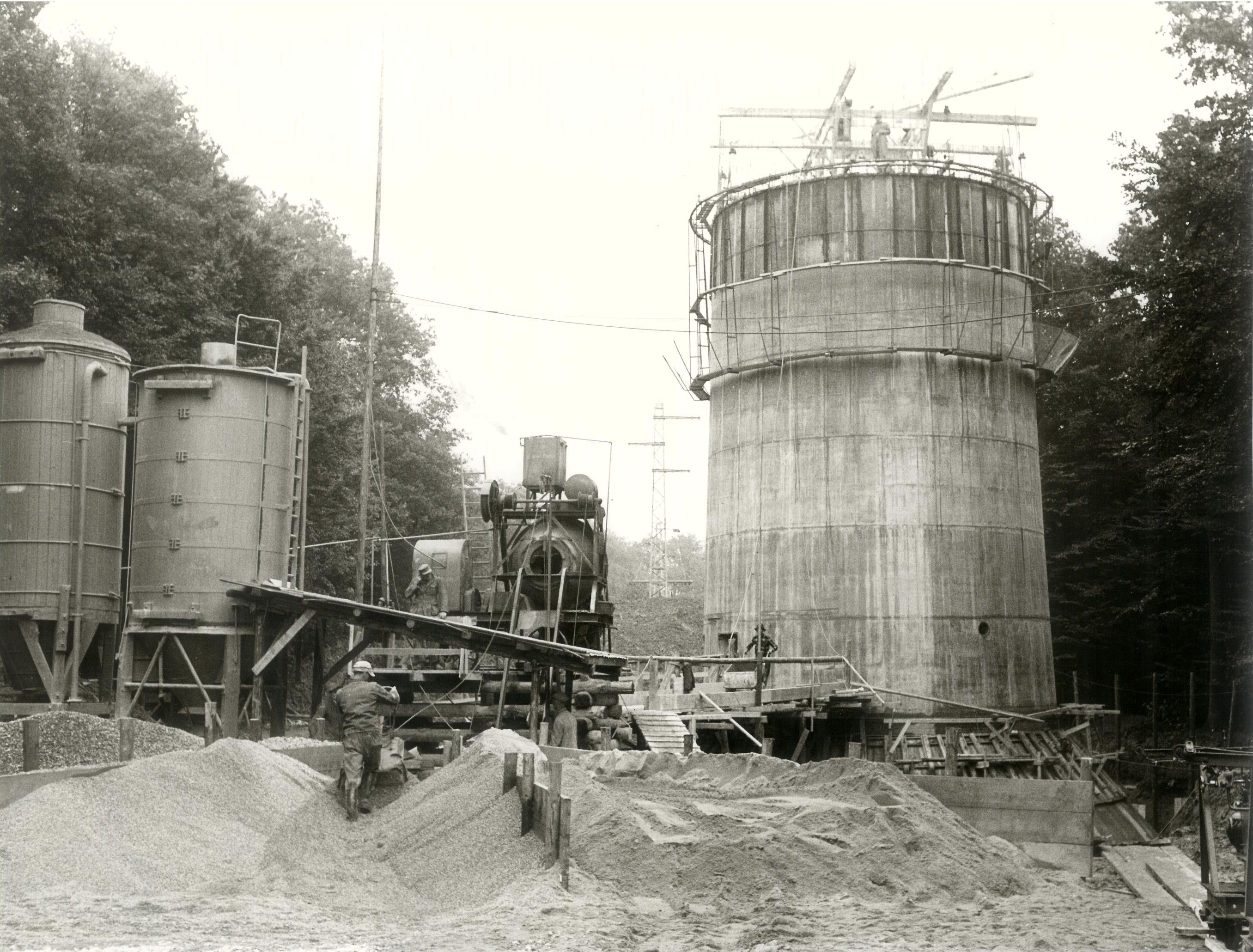 construction of televesion tower Stuttgart